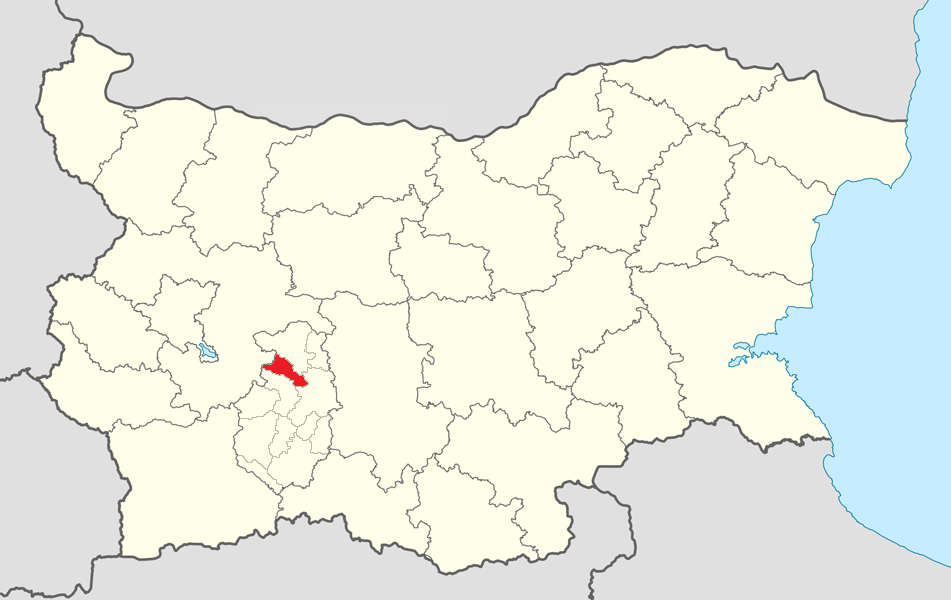 Location map of Lesichovo Municipality within Bulgaria and Pazardzik province